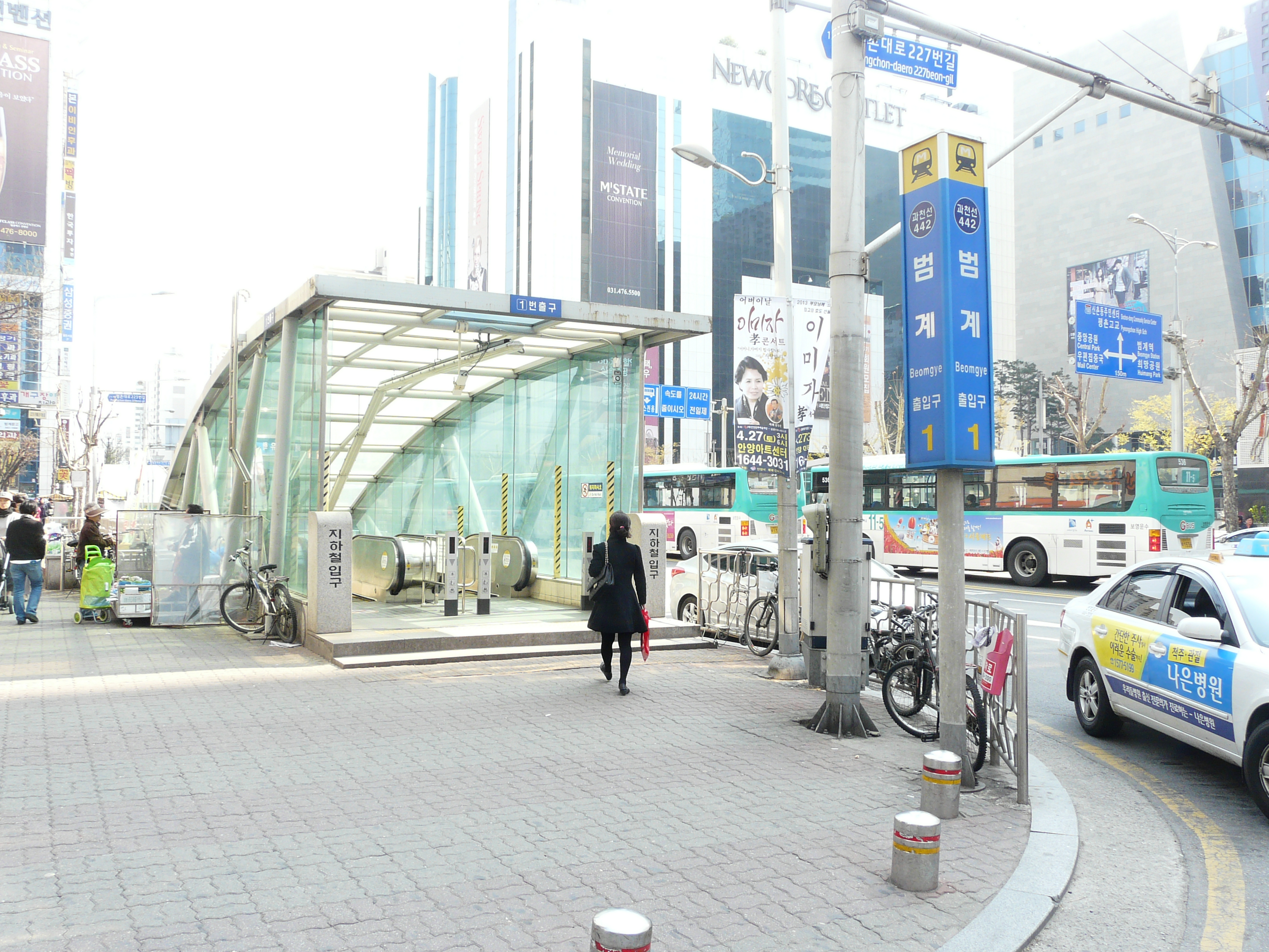 Photos from the city of Anyang, Korea.